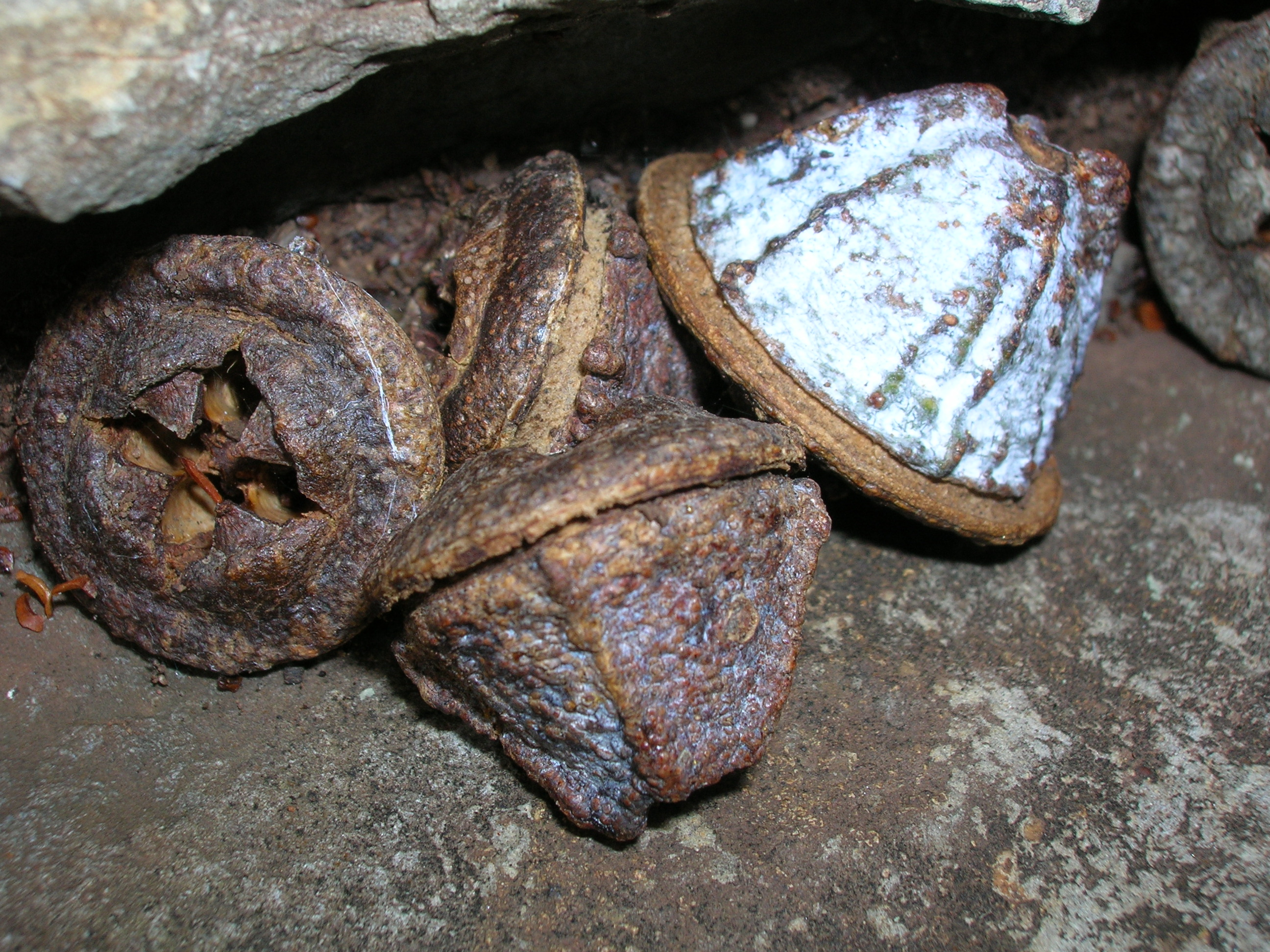 Eucalyptus globulus (fruit). Location: Maui, Olinda